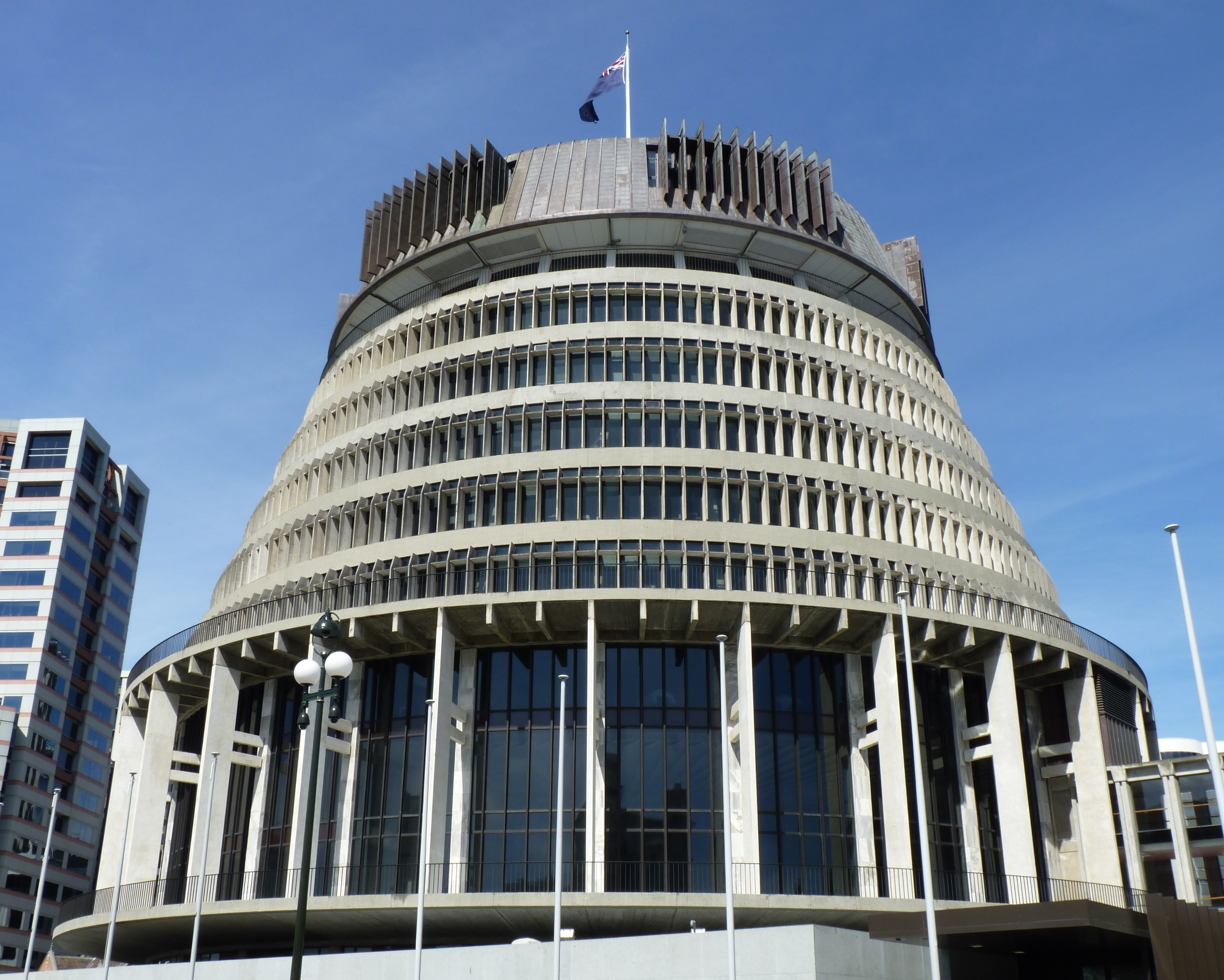 Beehive. Wellington, New Zealand